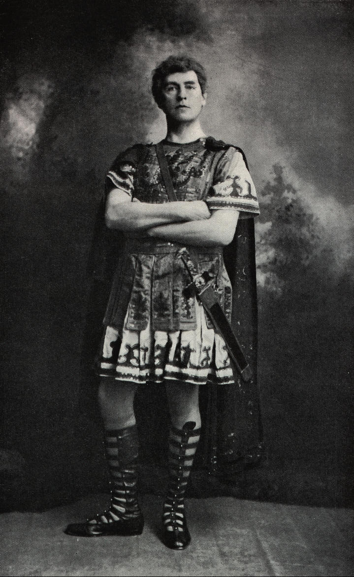 Otho Stuart (1863-1930) as Brutus in 'Julius Caesar' at Stratford-upon-Avon c1922